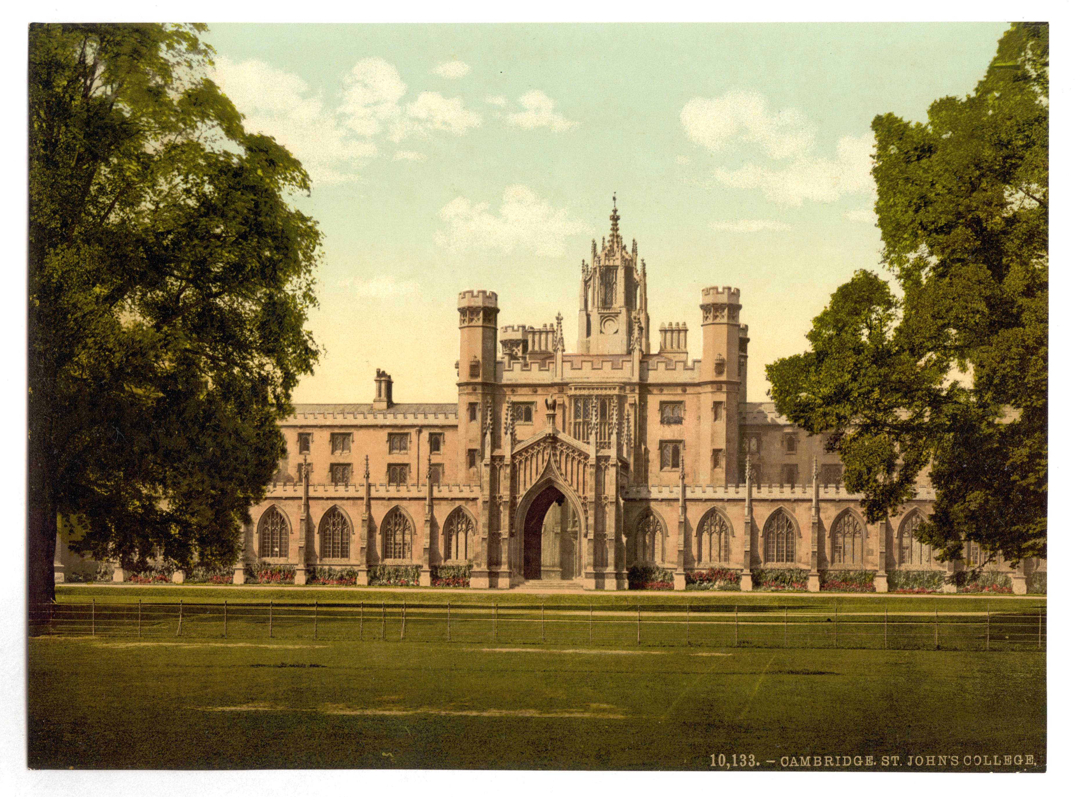 Forms part of: Views of the British Isles, in the Photochrom print collection.; More information about the Photochrom Print Collection is available at Title from the Detroit Publishing Co., Catalogue J-foreign section, Detroit, Mich. : Detroit Publishing Company, 1905.; Print no. "10133".